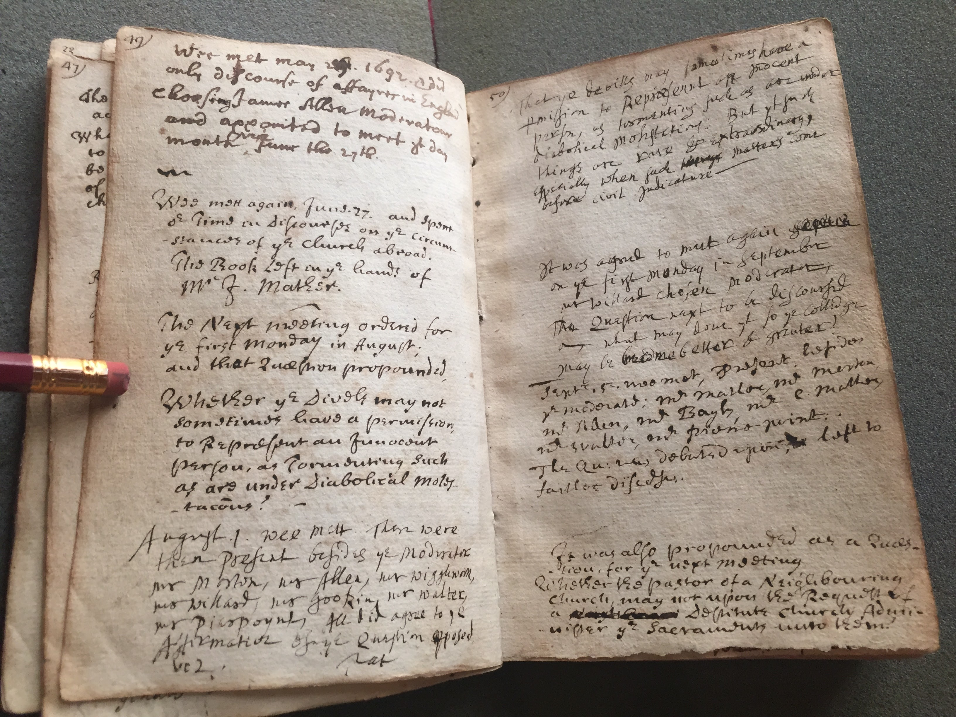 Minutes in the handwriting of Cotton Mather (June 27) and his father Harvard President Increase Mather (August 1).